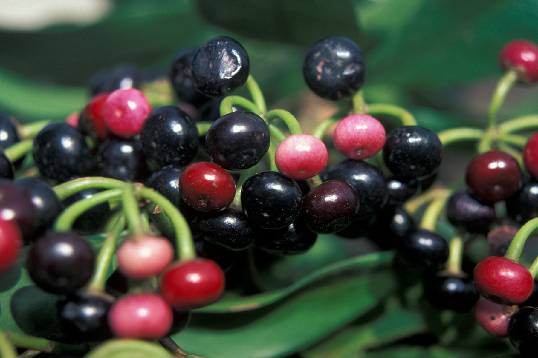 Ardisia elliptica (fruit). Location: Maui, Hana Hwy